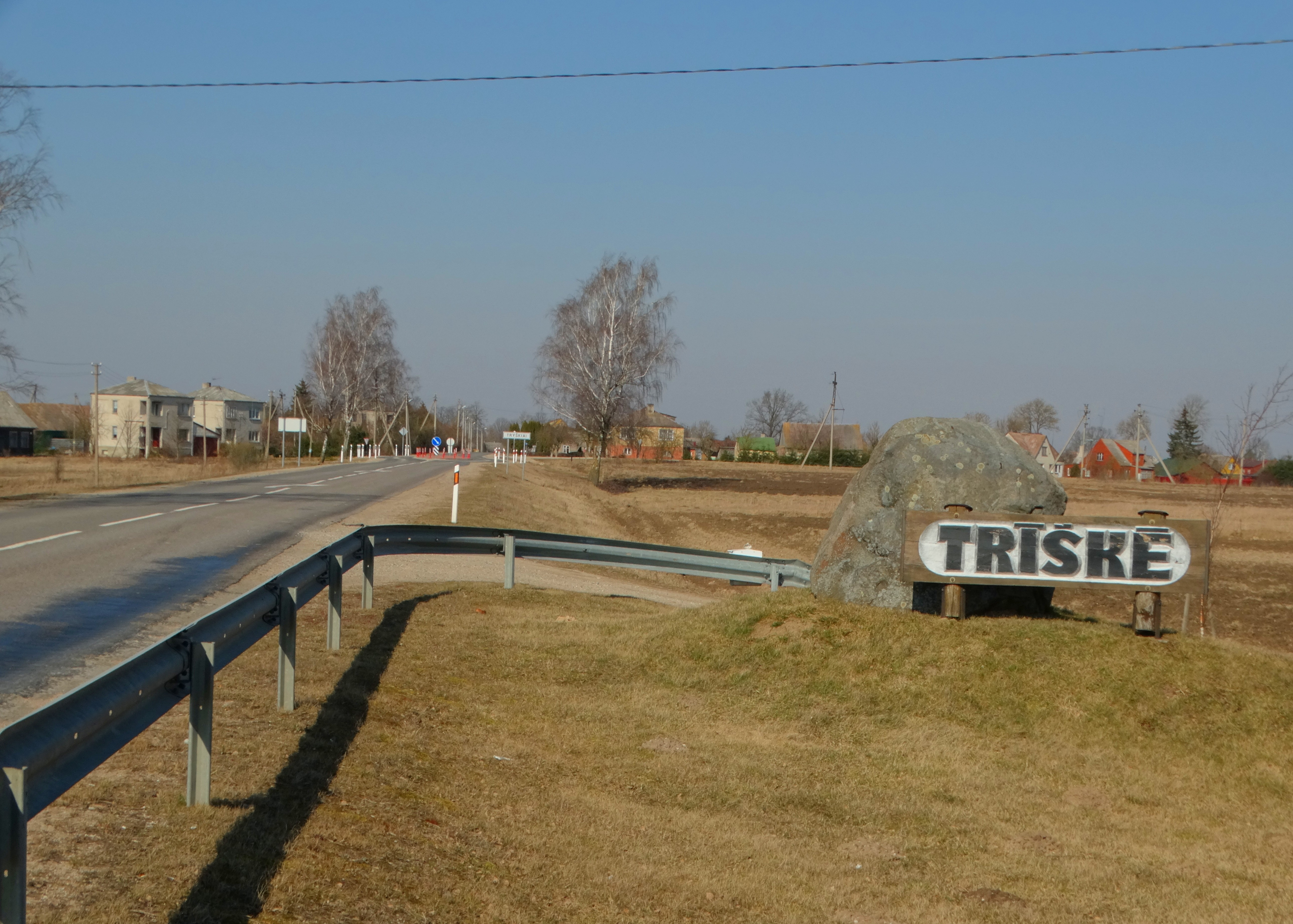 Tryškiai, Telšiai district, Lithuania